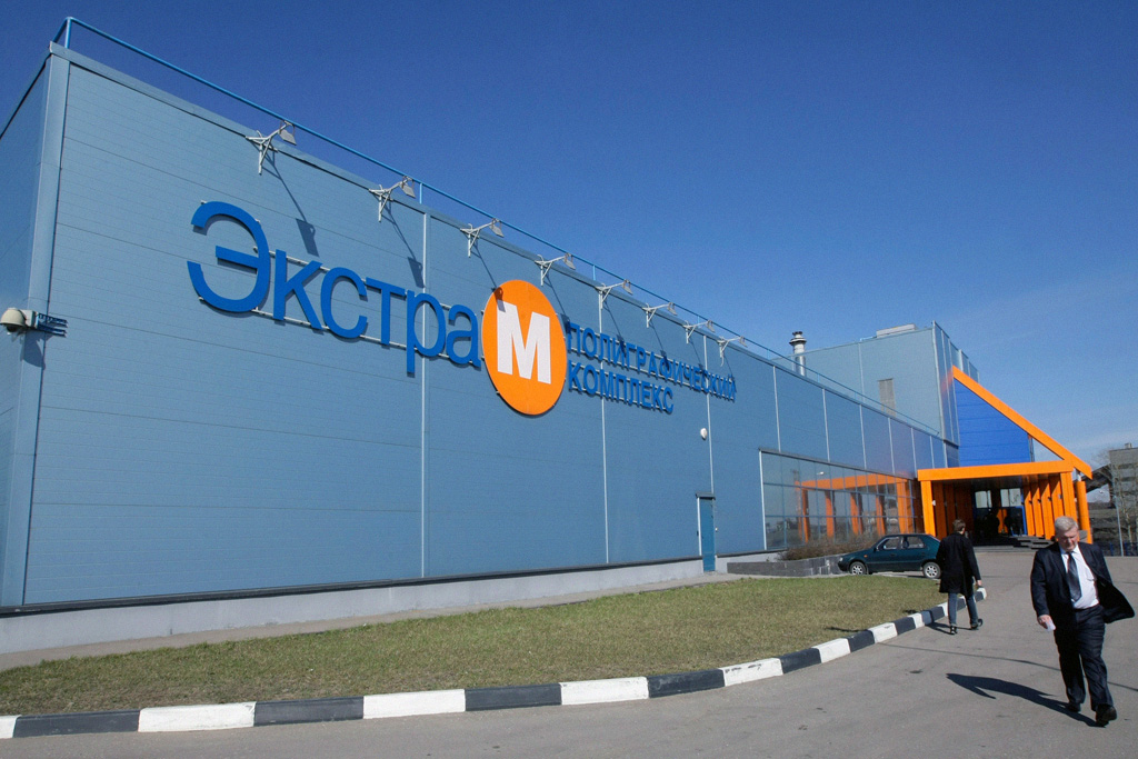 “Cutting-edge printing complex "Extra M" in Krasnogorsk near Moscow”. The cutting-edge printing complex "Extra M" in Krasnogorsk near Moscow is one of the largest Russian companies that produce full-color newspapers and magazines.